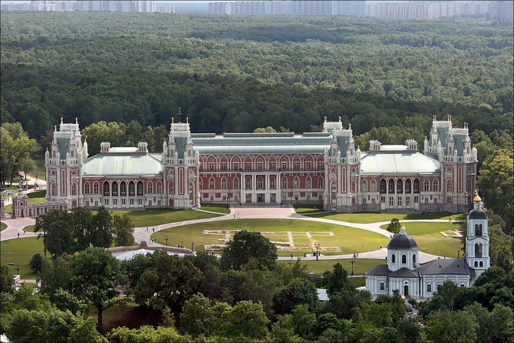 Tsaritsino